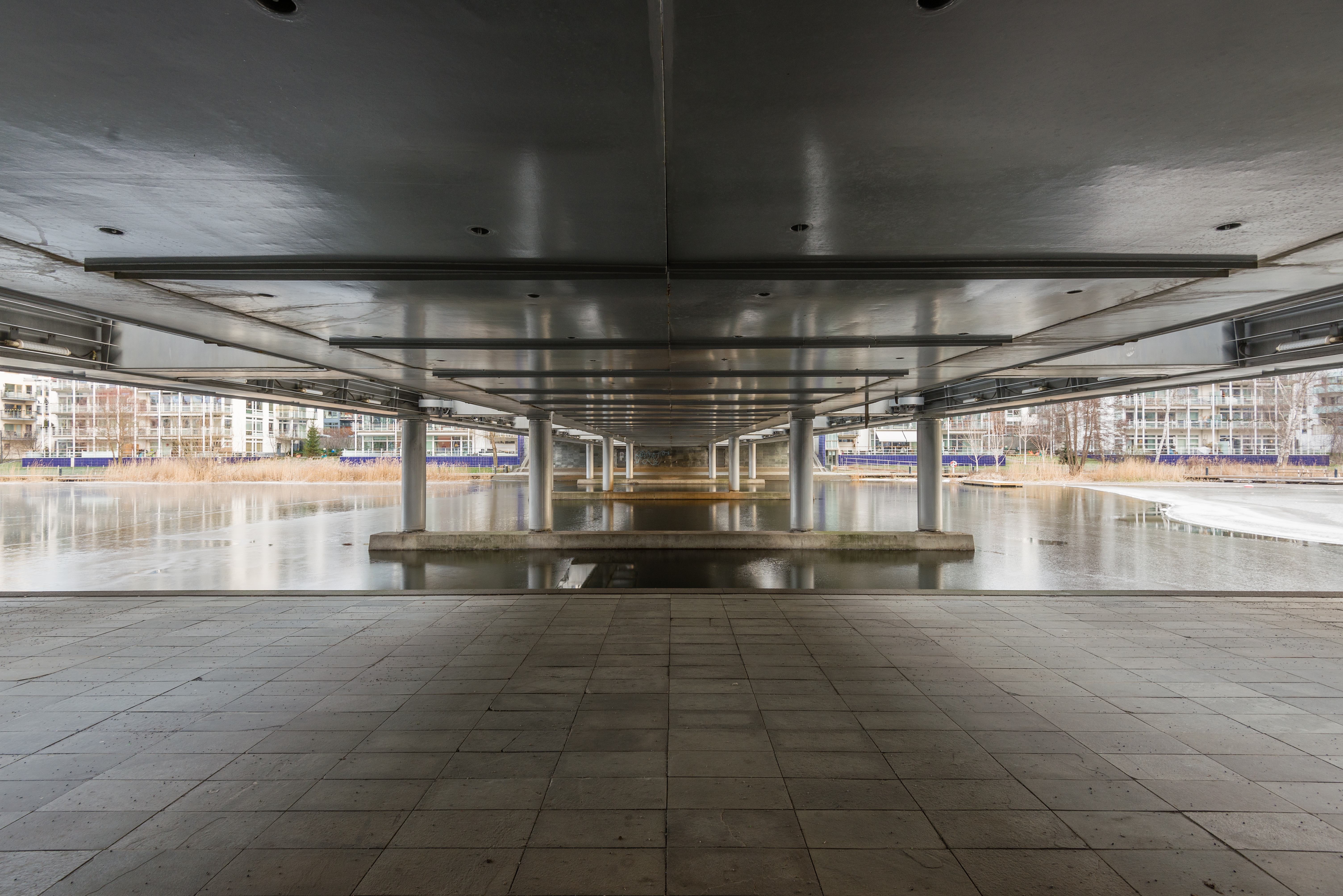 Allébron, Södra Hammarbyhamnen, Stockholm.